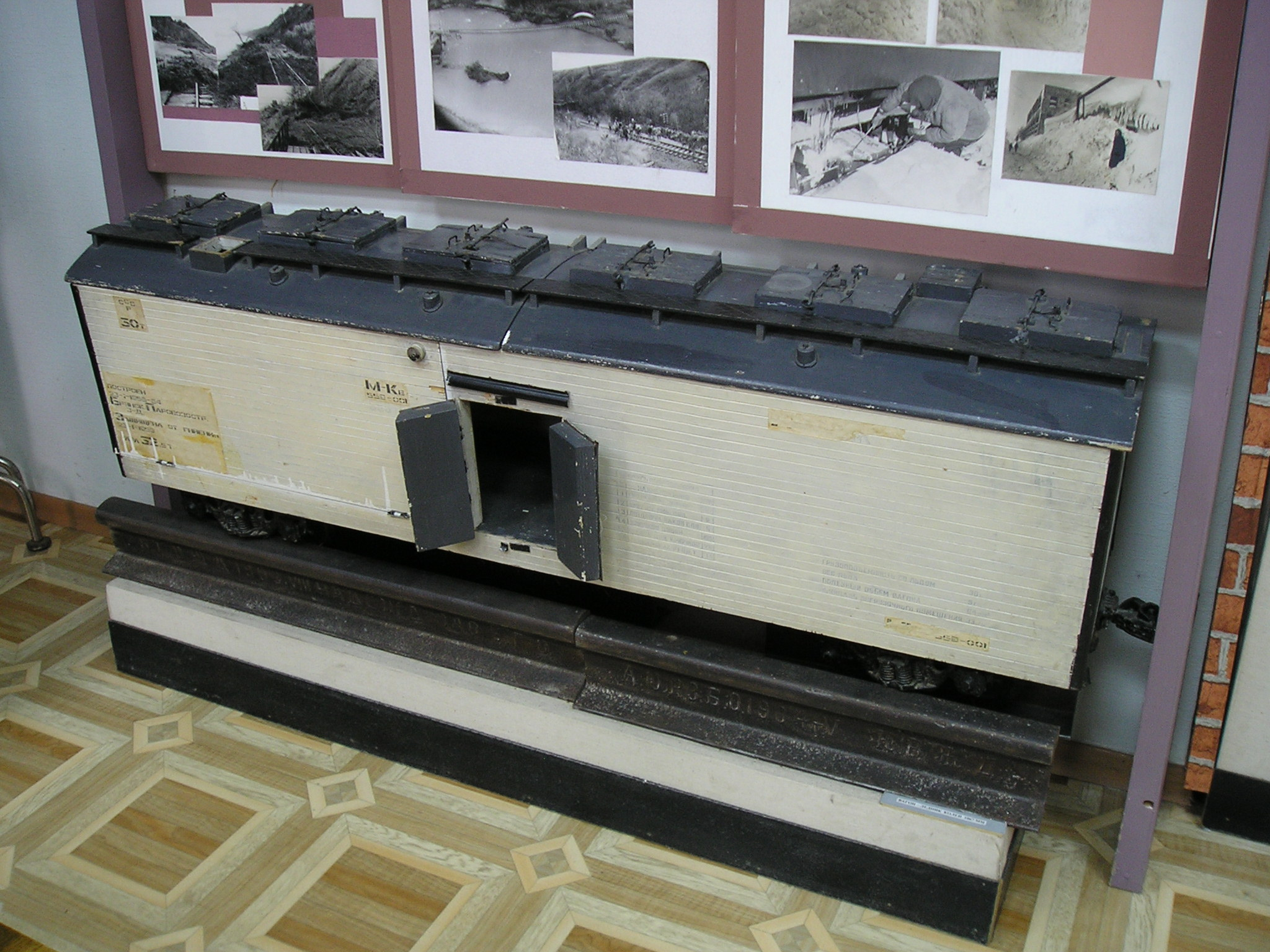 Model of USSR's refrigerator van in museum of history Sakhalinian railroad